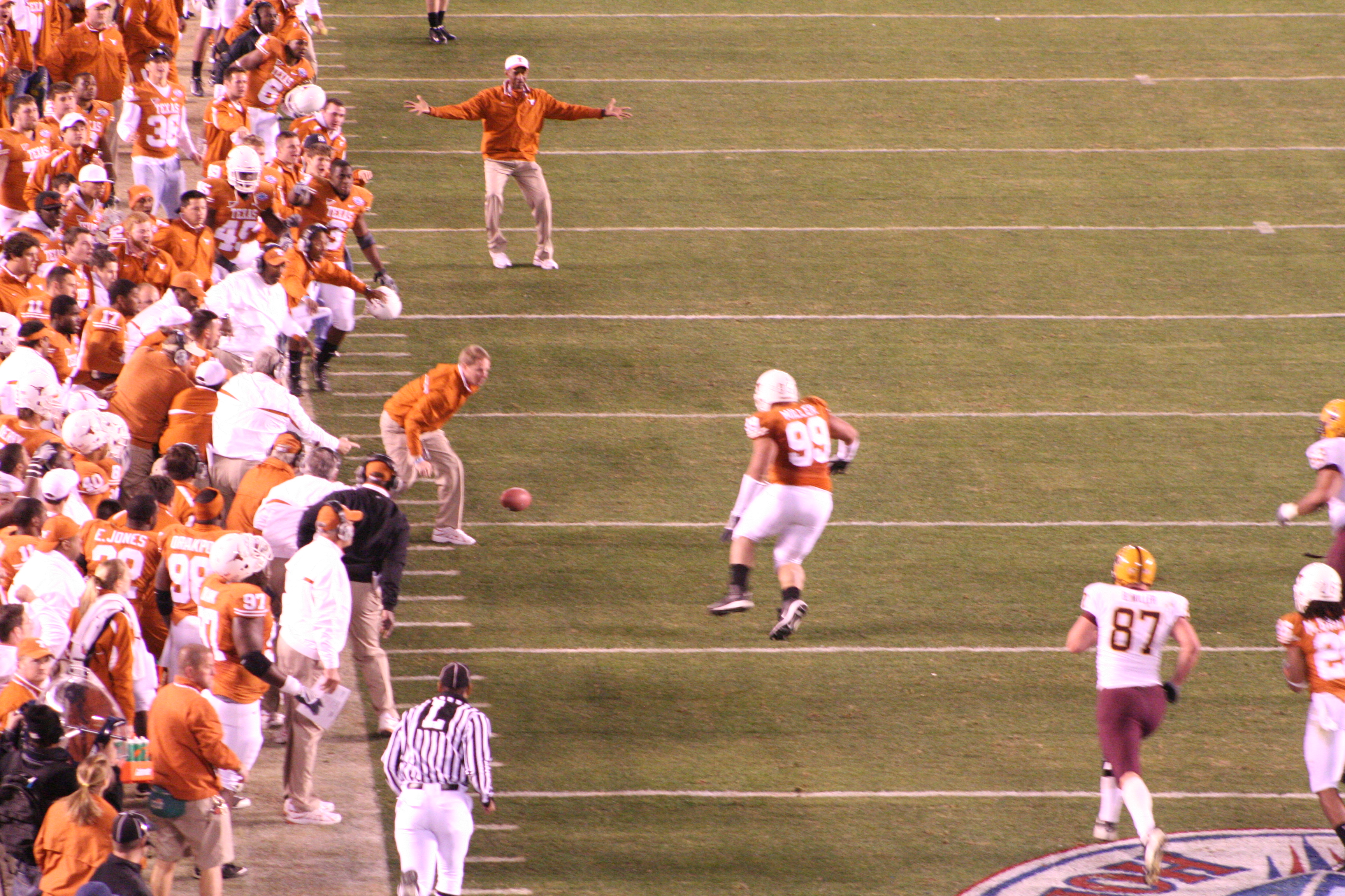 College football's 2007 Holiday Bowl: This play, where a member of the 2007 Texas Longhorn football team may or may not have touched the ball while in play, resulting in an unsportsmanlike-penalty call against Texas and gave a temporary advantage to the Arizona State Sun Devils. Texas went on to win the game.